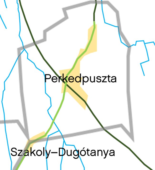 Perkedpuszta, and its area